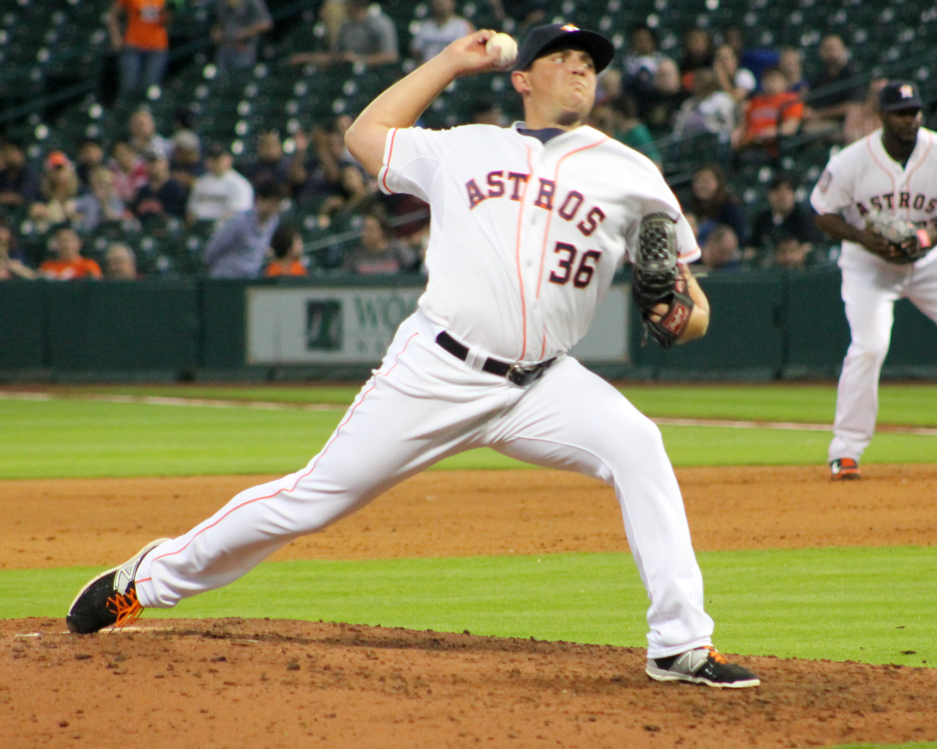 Will Harris, a professional baseball player, pitches during a game in Houston in April 2015.